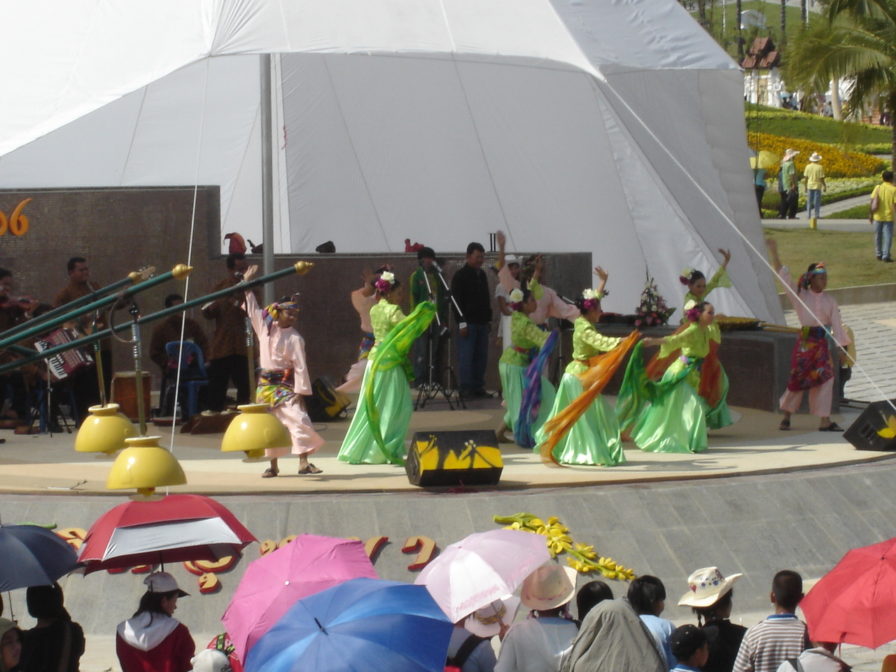 in Royal Flora Expo 2006, Chiangmai, Thailand